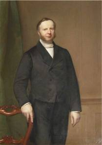 Willem van Heeckeren van Kell. Minister of Foreign Affairs of the Netherlands (1877-1879)